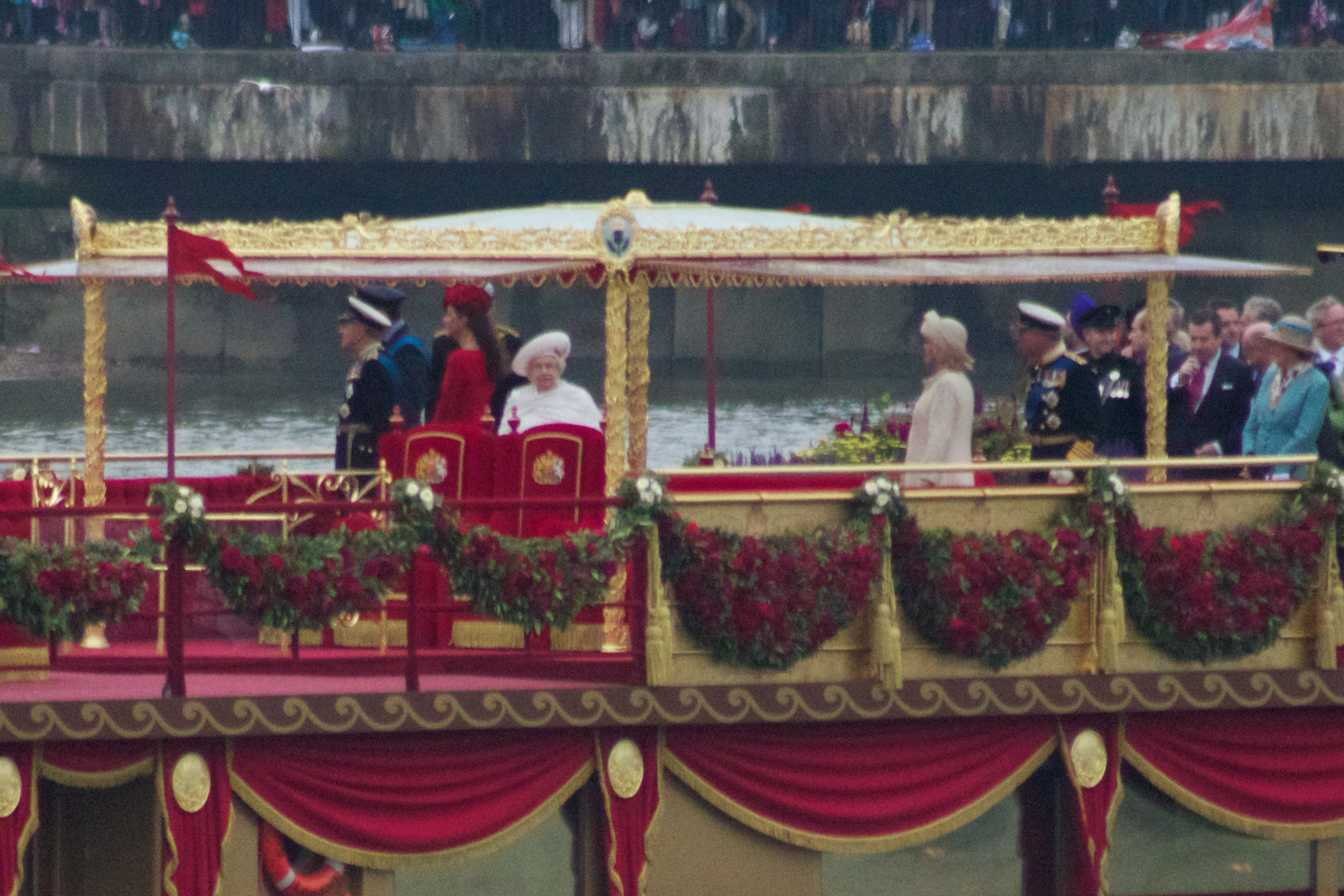 Queen Elizabeth and seven members of the royal family aboard Spirit of the Chartwell during the 2012 Diamond Jubilee celebrations.